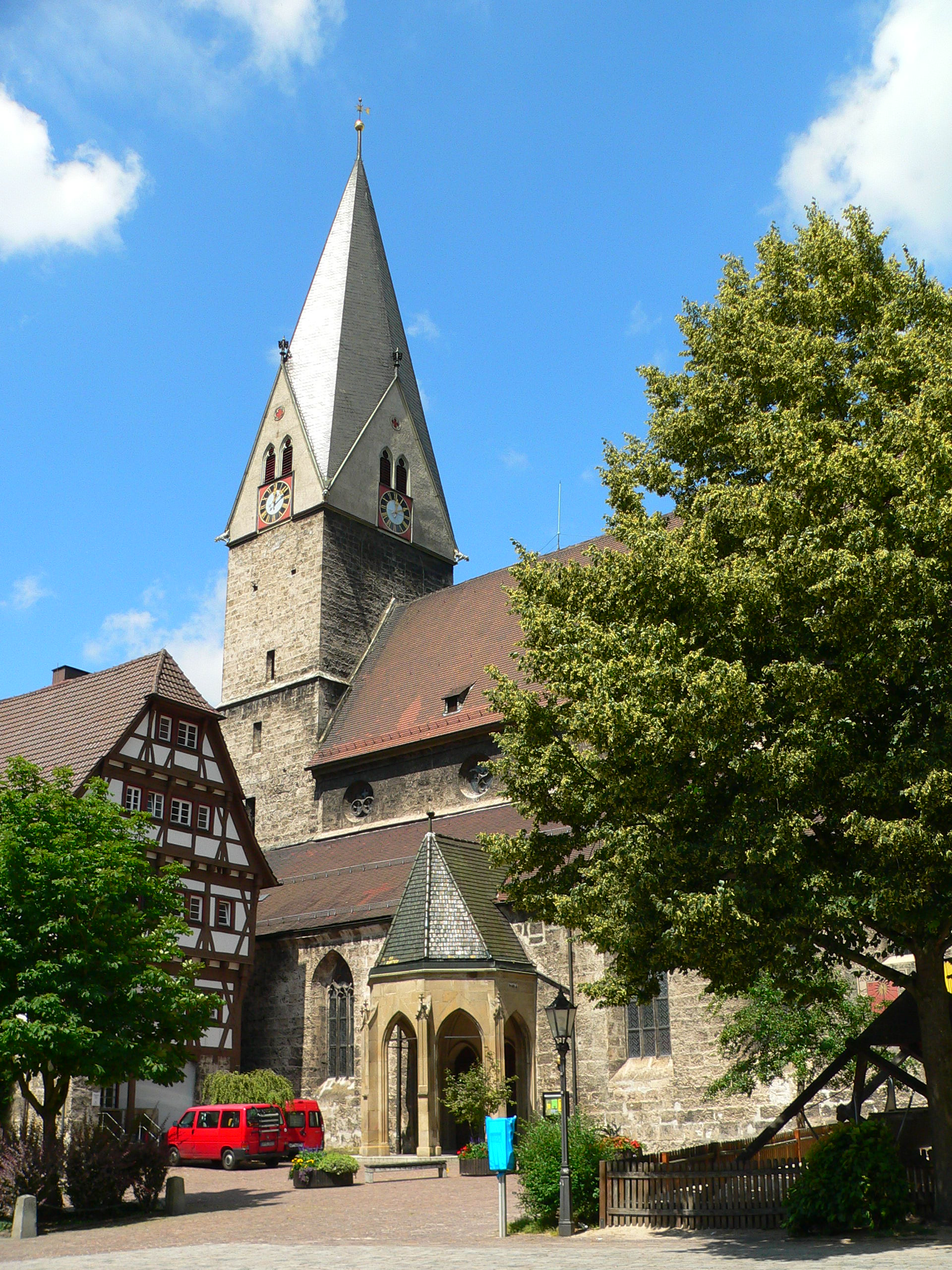 Building: "Evangelische Stadtkirche", Geislingen an der Steige, Germany